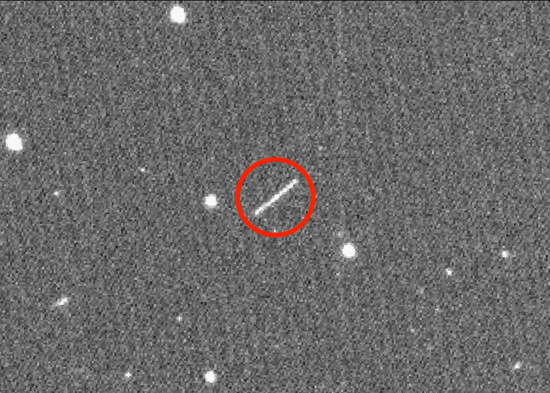 PIA24038: Asteroid 2020 QG as Seen Through ZTF Telescope The streak circled in the center of this image is asteroid 2020 QG, which came closer to Earth than any other nonimpacting asteroid on record. It was detected by the Zwicky Transient Facility on Sunday, Aug. 16 at 12:08 a.m. EDT (Saturday, Aug. 15 at 9:08 p.m. PDT). The wide-field camera image of the Zwicky Transient Facility, a sky-scanning survey telescope funded by the National Science Foundation and NASA, and based at Caltech's Palomar Observatory in Southern California. The image was taken six hours after the close approach, as the asteroid was heading away from Earth.